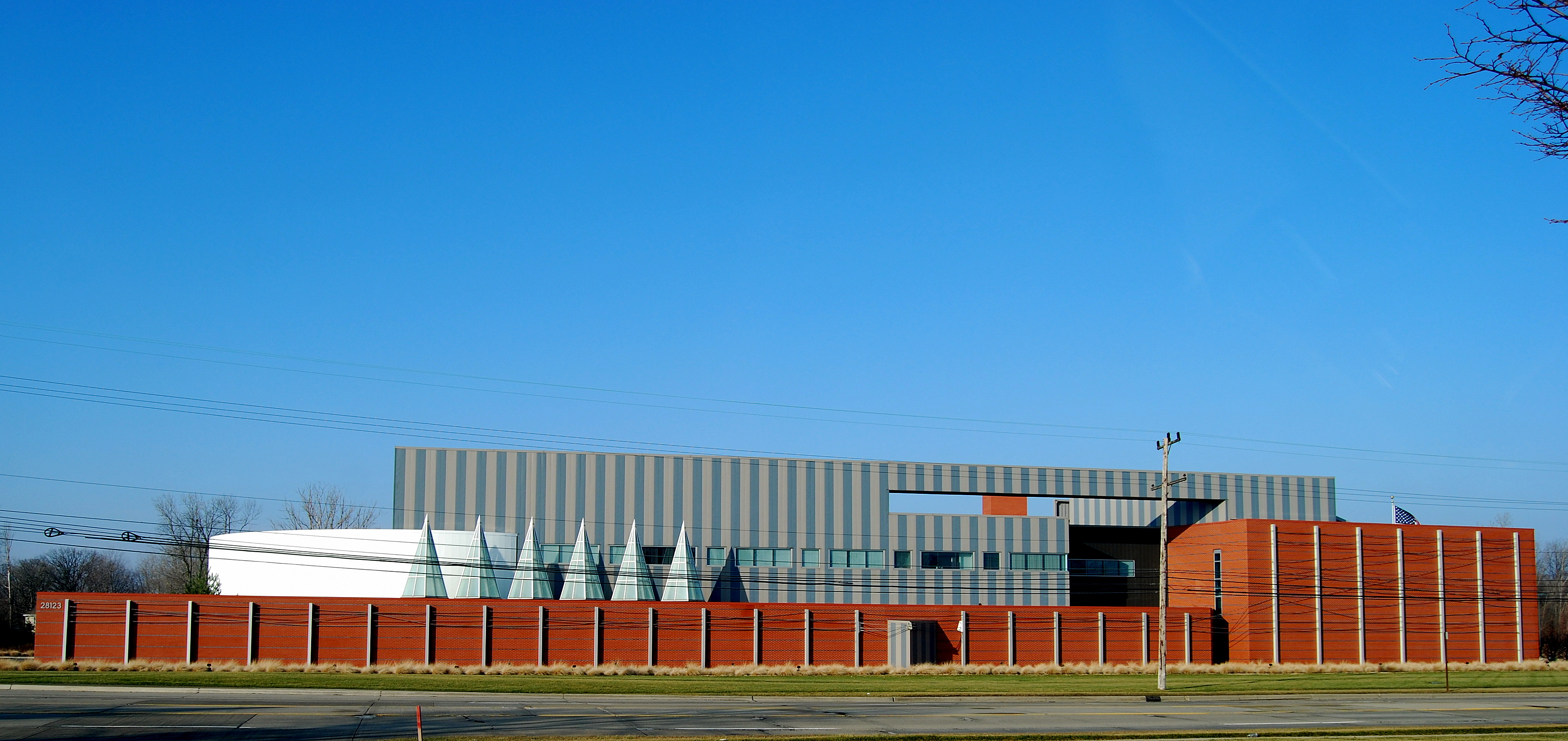 Holocaust Memorial Center Farmington Hills, Michigan